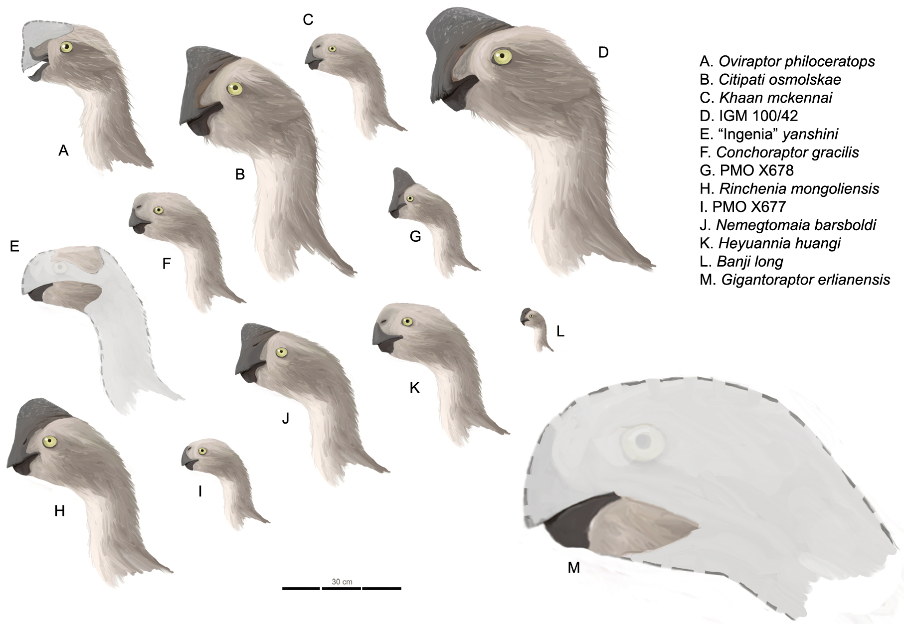 Profiles of all oviraptorids with known skull material, including identification key and scale bar. Matches skeletal diagrams by palaeontologists Gregory S. Paul (The Princeton Field Guide to Dinosaurs, 2010, p. 153-155).